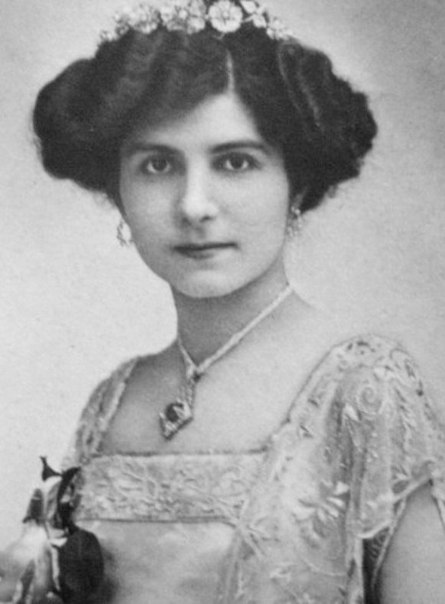 Princess Helena of Serbia